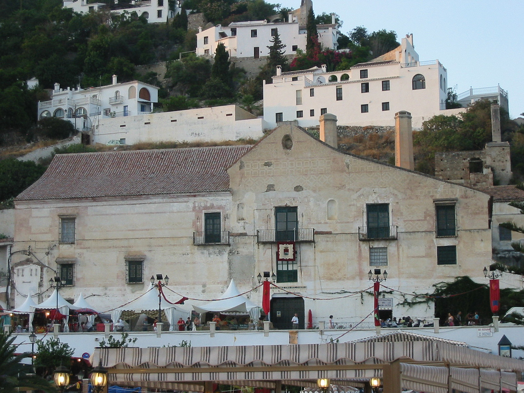 Palace of the Counts of Frigiliana aka El Ingenio. Currently in use as a honey factory. Frigiliana.